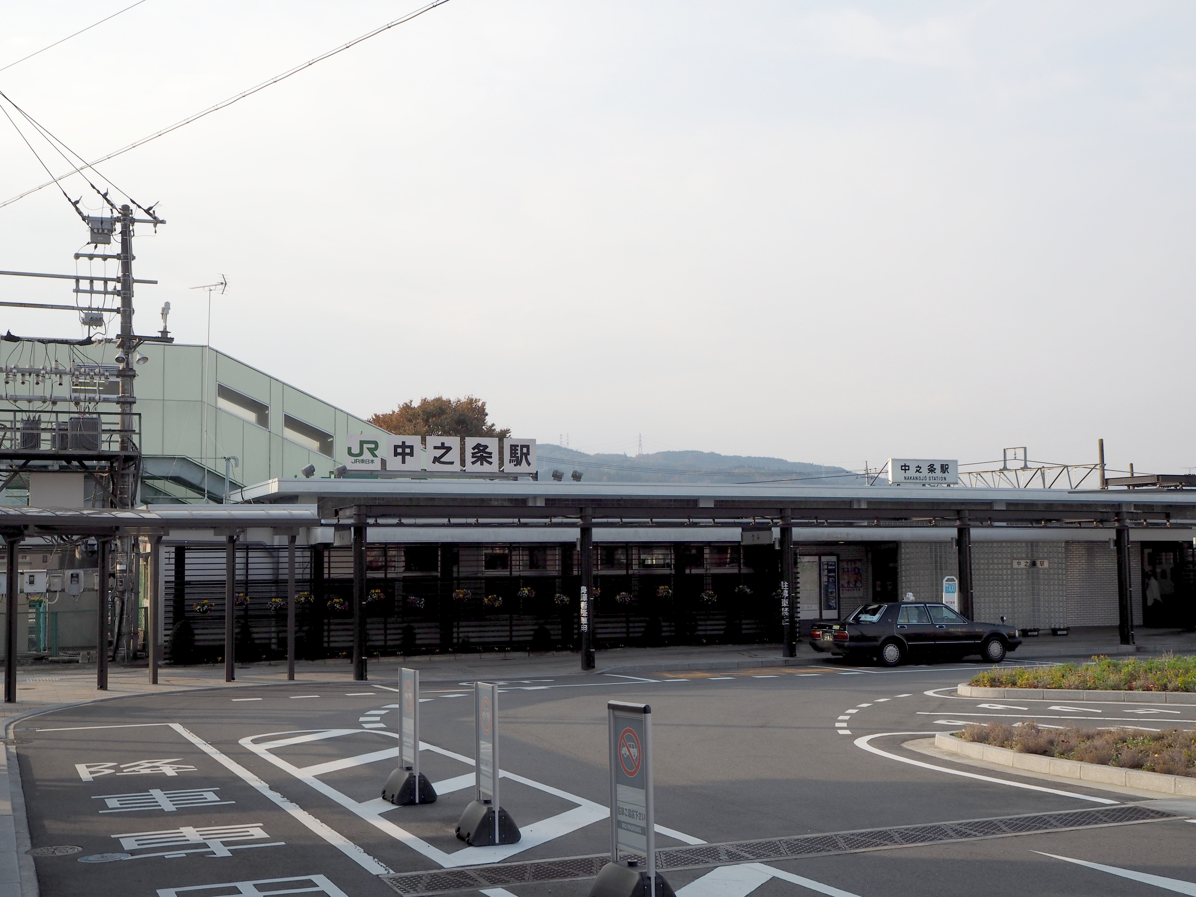 Nakanojō Station